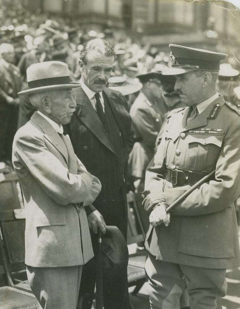 John Dudley Lavarack discussing the Depression with Billy Hughes & Dick Casey.